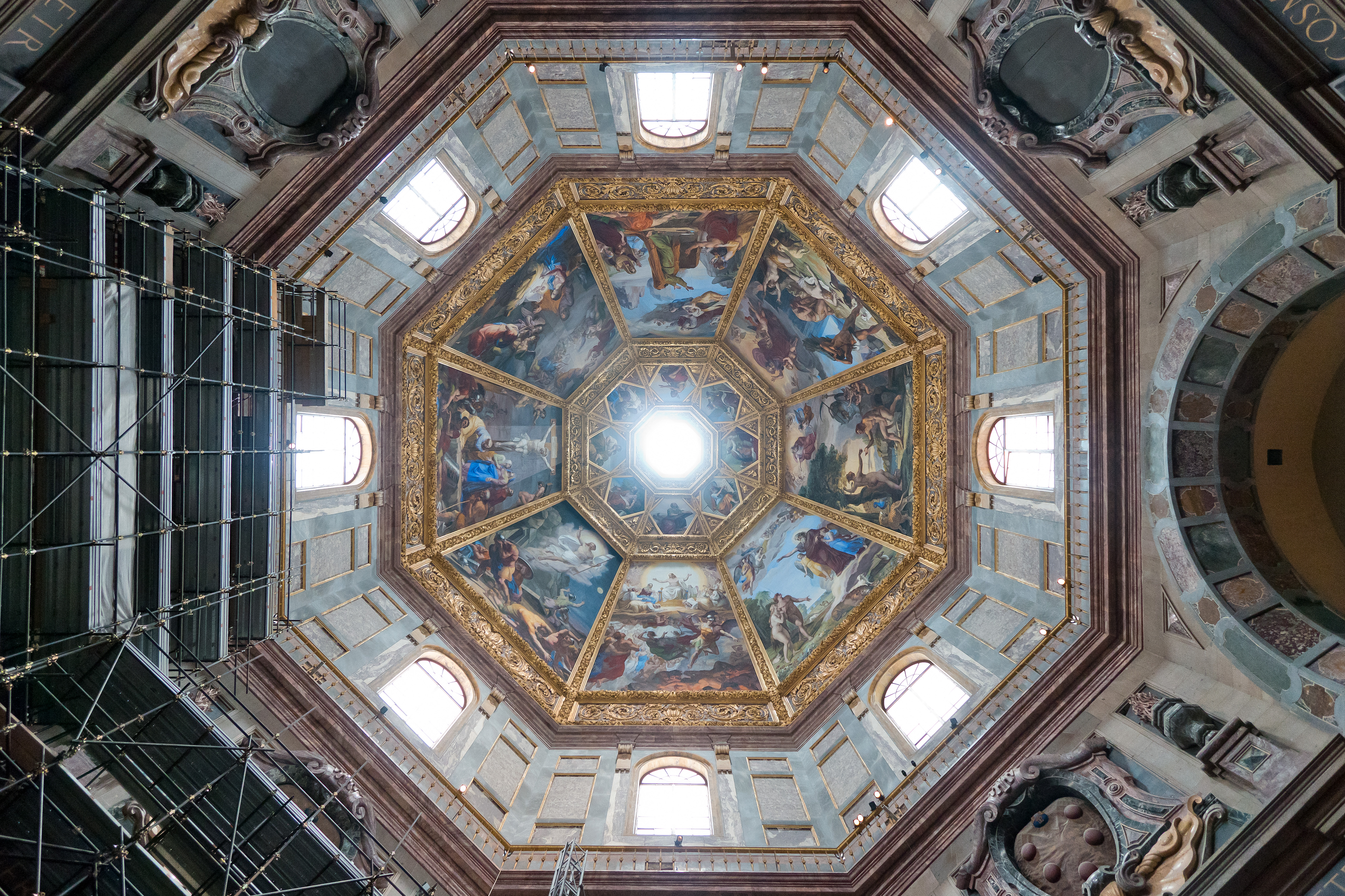 Dome of Cappella dei Principi in Medici Chapel, Florence, 2017